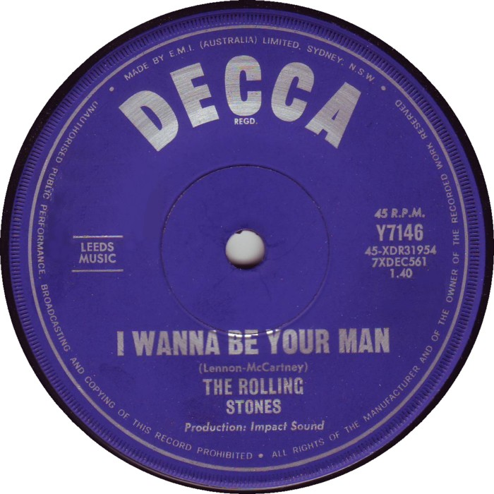 A-side label of the Australian vinyl release of "I Wanna Be Your Man" by The Rolling Stones